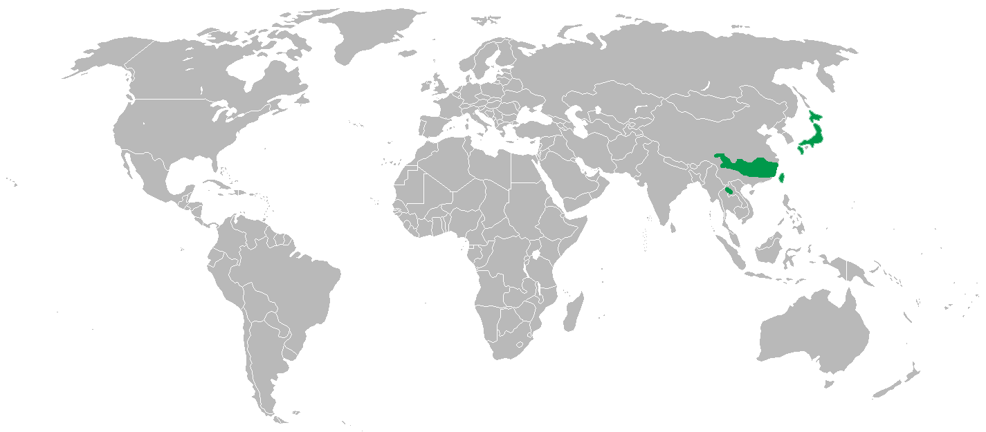 Map of distribution of plant genus Helwingia